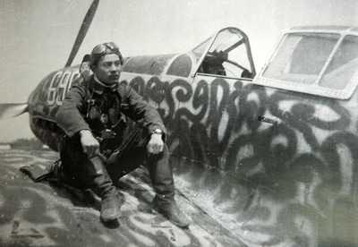 Second lieutenant Uehara sitting on Tony's wings